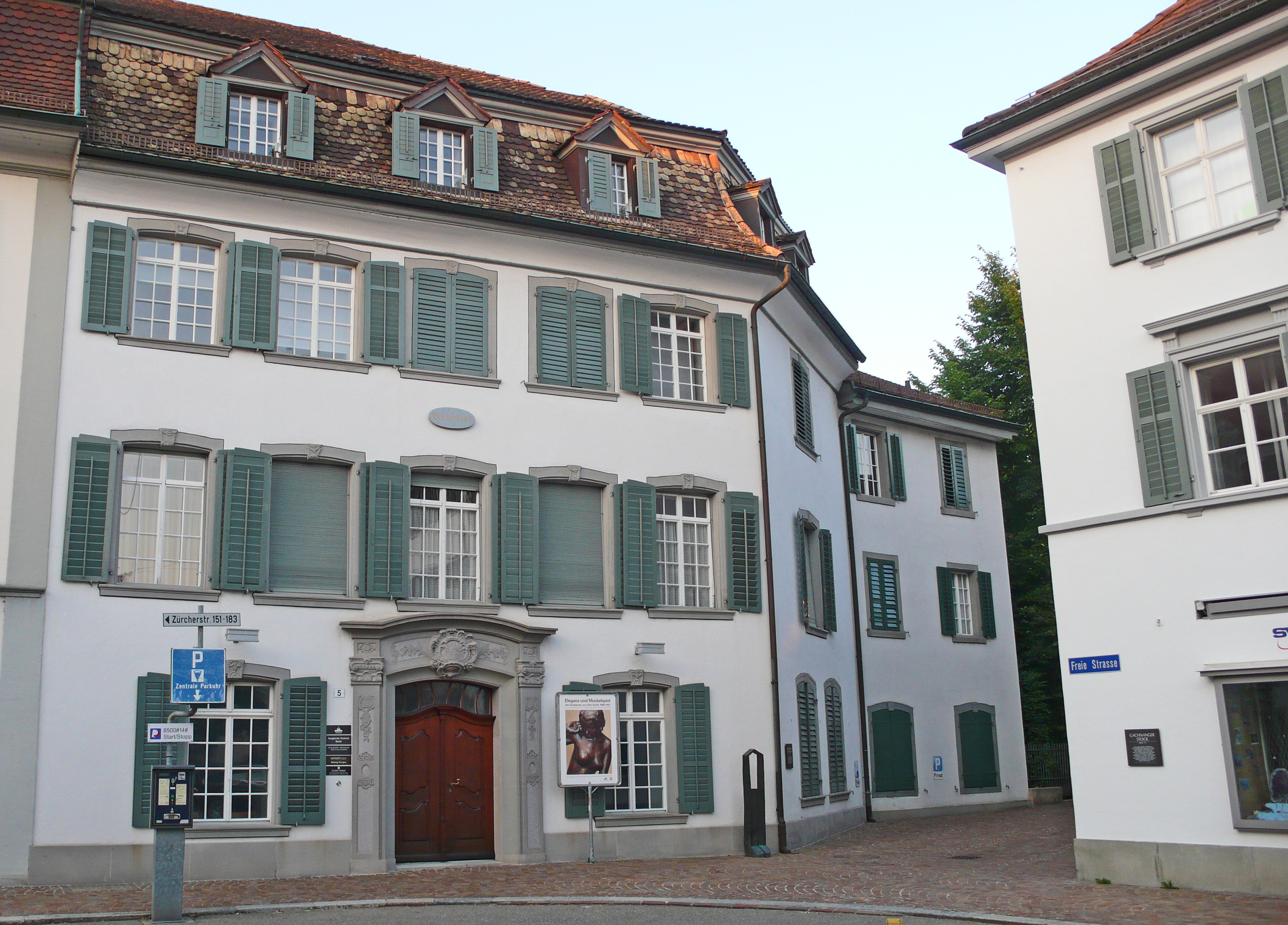 Bernerhaus in Frauenfeld, Switzerland